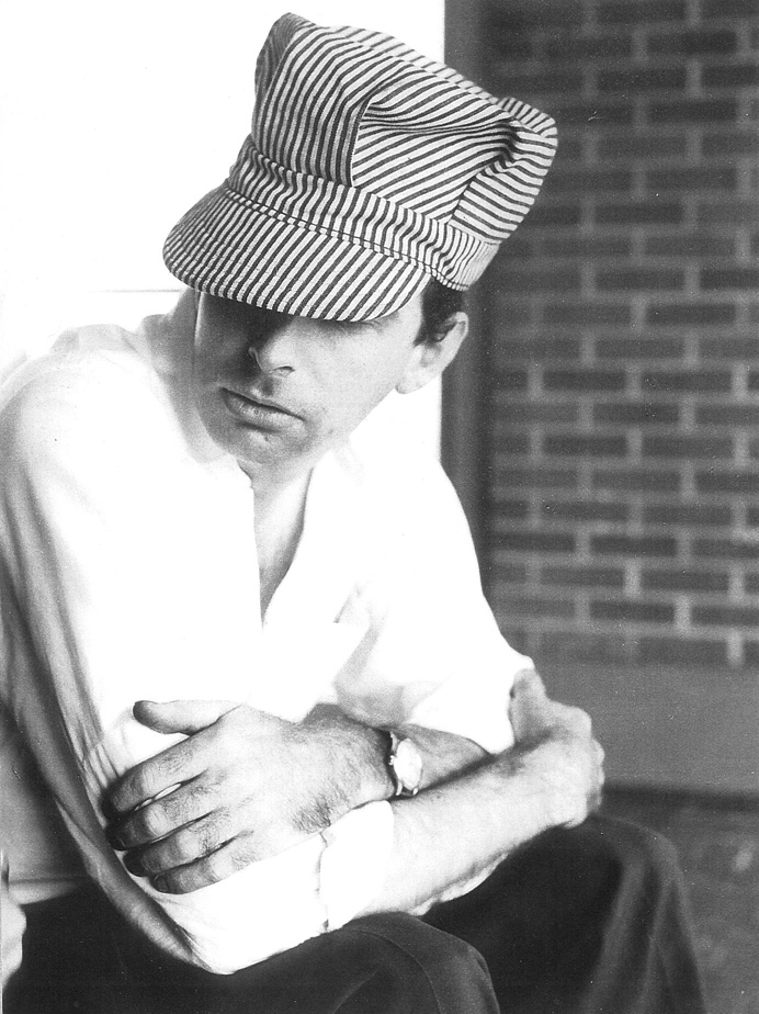 Leo Zimmerman